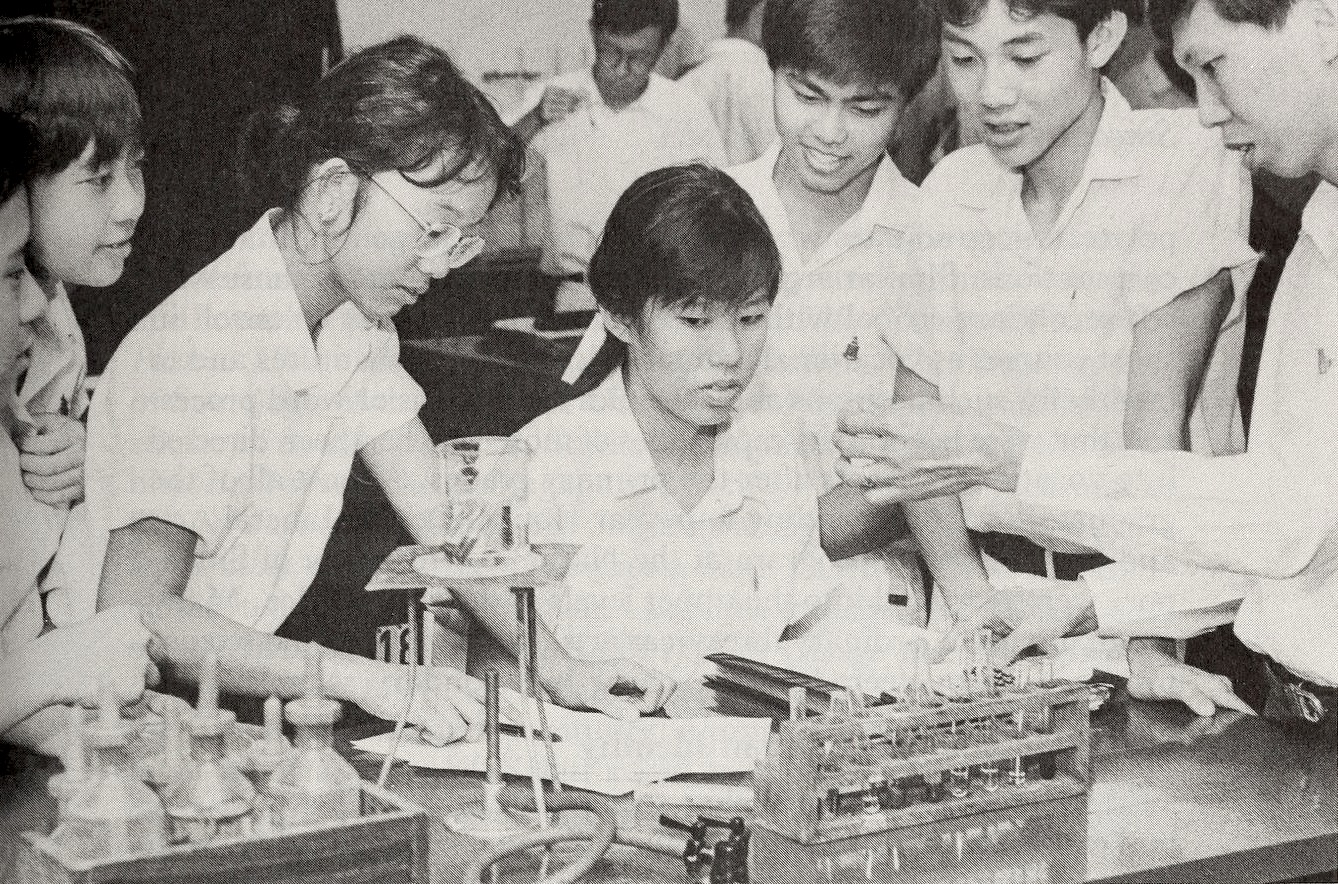 Raffles Junior College chemistry laboratory (in the early 1990s or possible late 1980s)